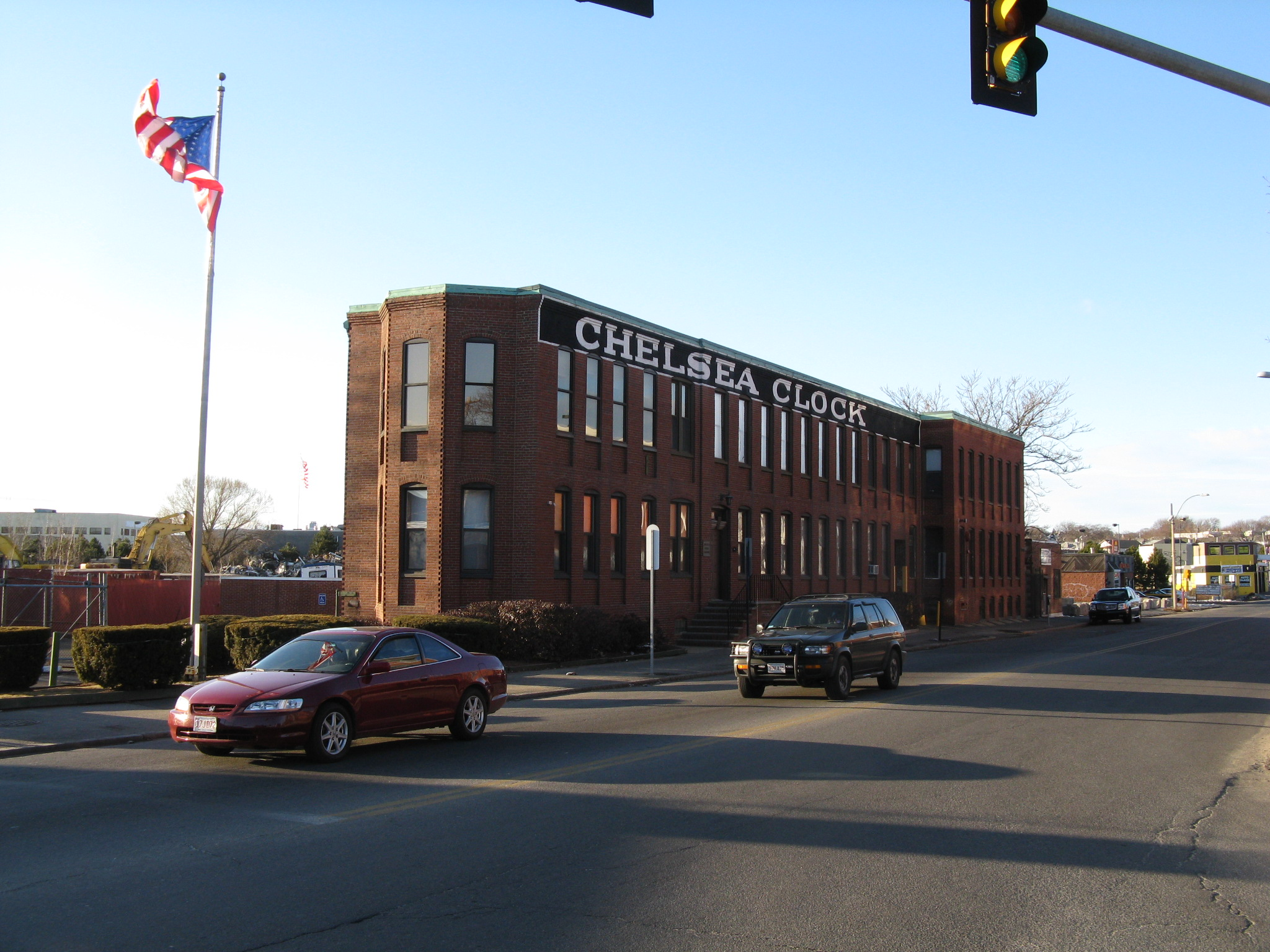 Chelsea Clock Company, Chelsea Massachusetts